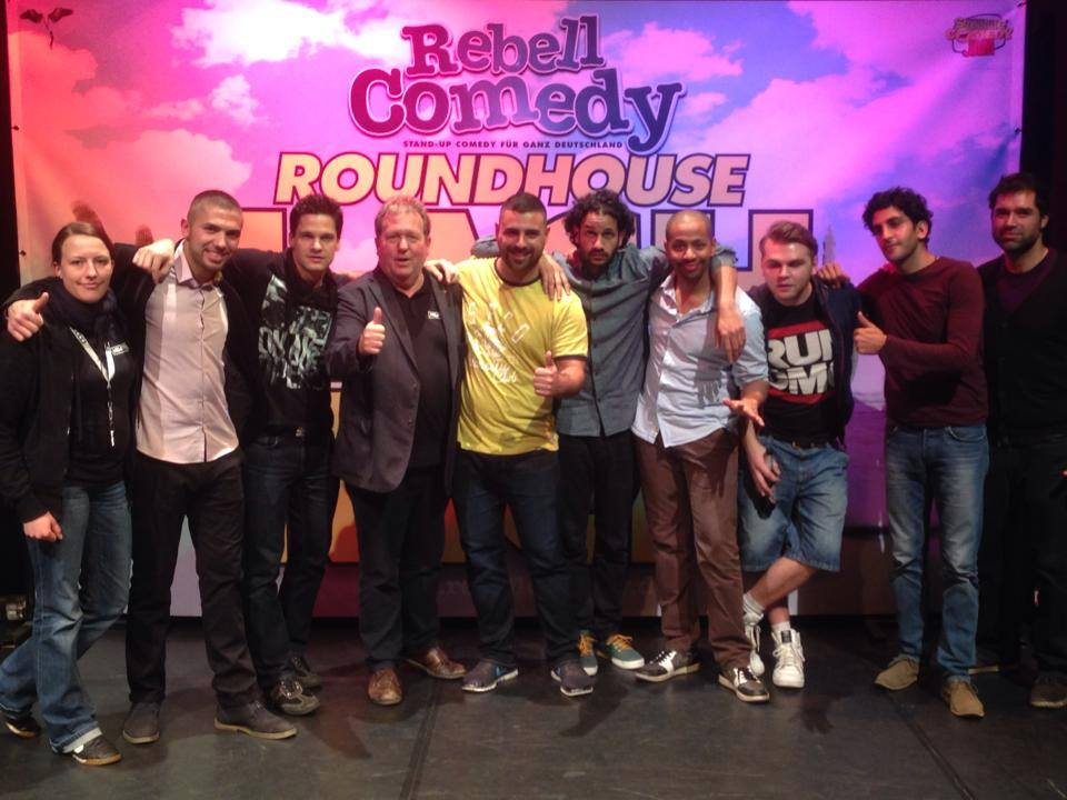 RebellComedy, Aftershow Bielefeld